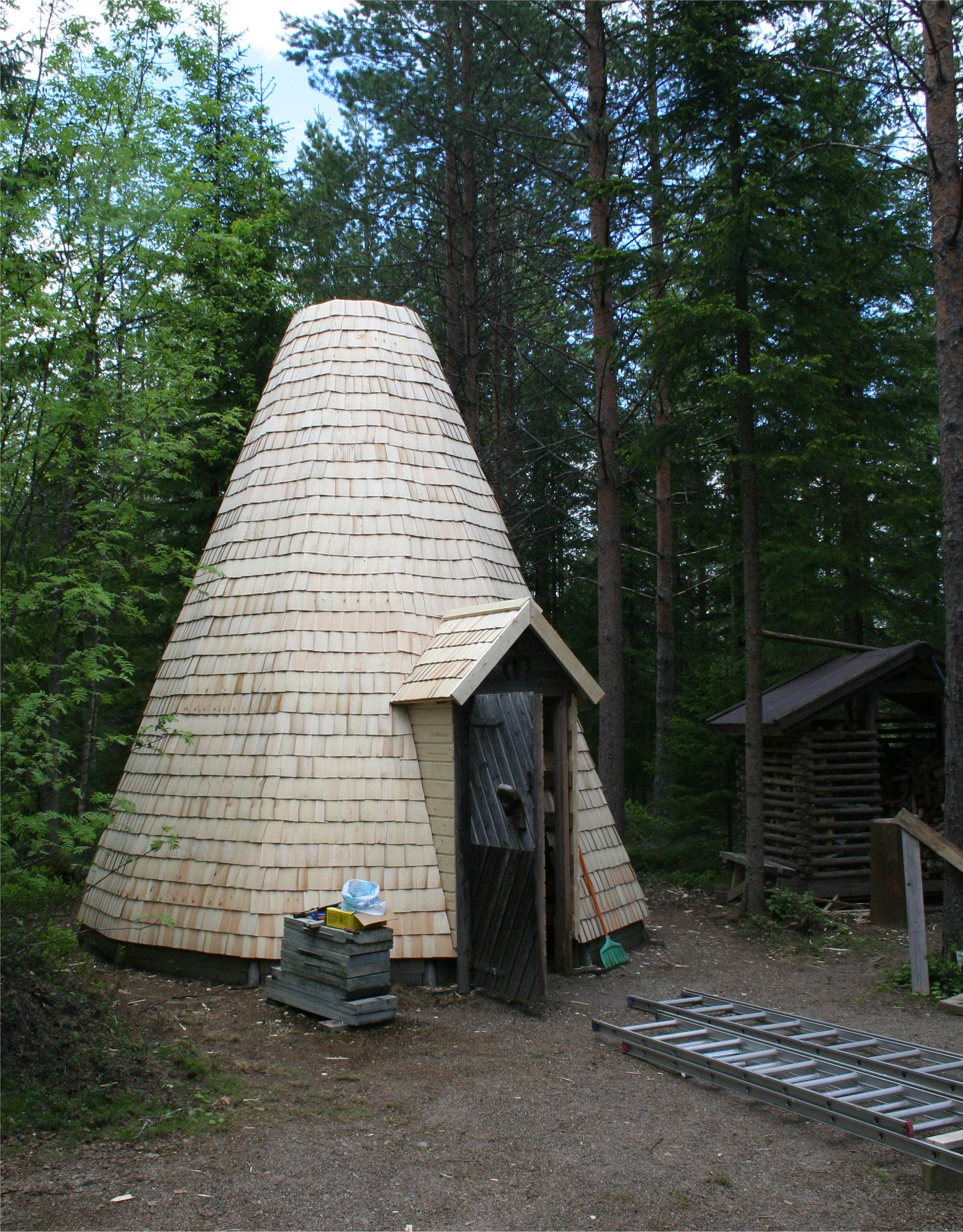 Goahti covered with wooden shingle sidings